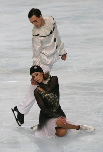 Federica Faiella and Massimo Scali/Trophée_Eric_Bompard_2008/FD